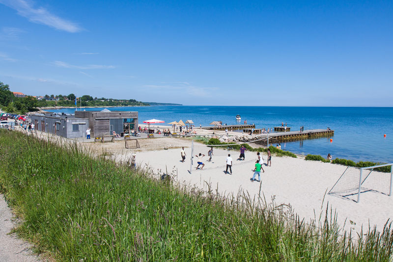 Østerstrand, beach close to Fredericia, Denmark, 12. June 2015